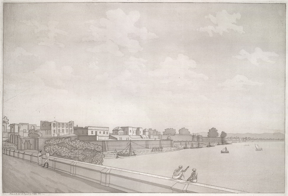 'West view of Monghir'. The river front, with buildings of the old palace surmounting the semi-circular bastions. Aquatint, drawn and engraved by James Moffat, published Calcutta 1804.